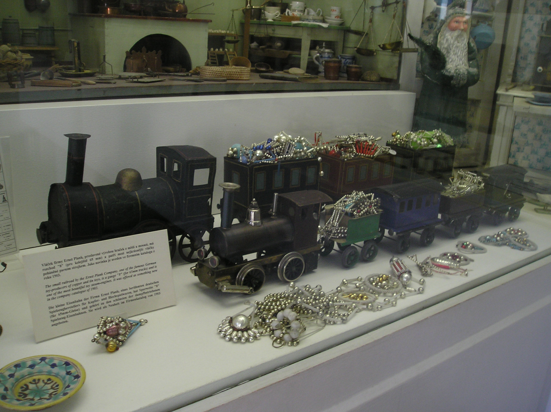 The Toy Museum in Prague. Train from Ernst Planck from 1903.